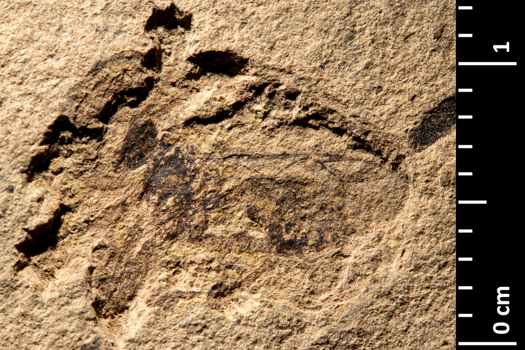 The Phaenolobus arvernus holotype specimen with direct lighting. Thanetian, Paleocene; Menat Formation, Menat Basin, Puy-de-Dôme, France Muséum national d'Histoire naturelle specimen MNHN.F.A57301